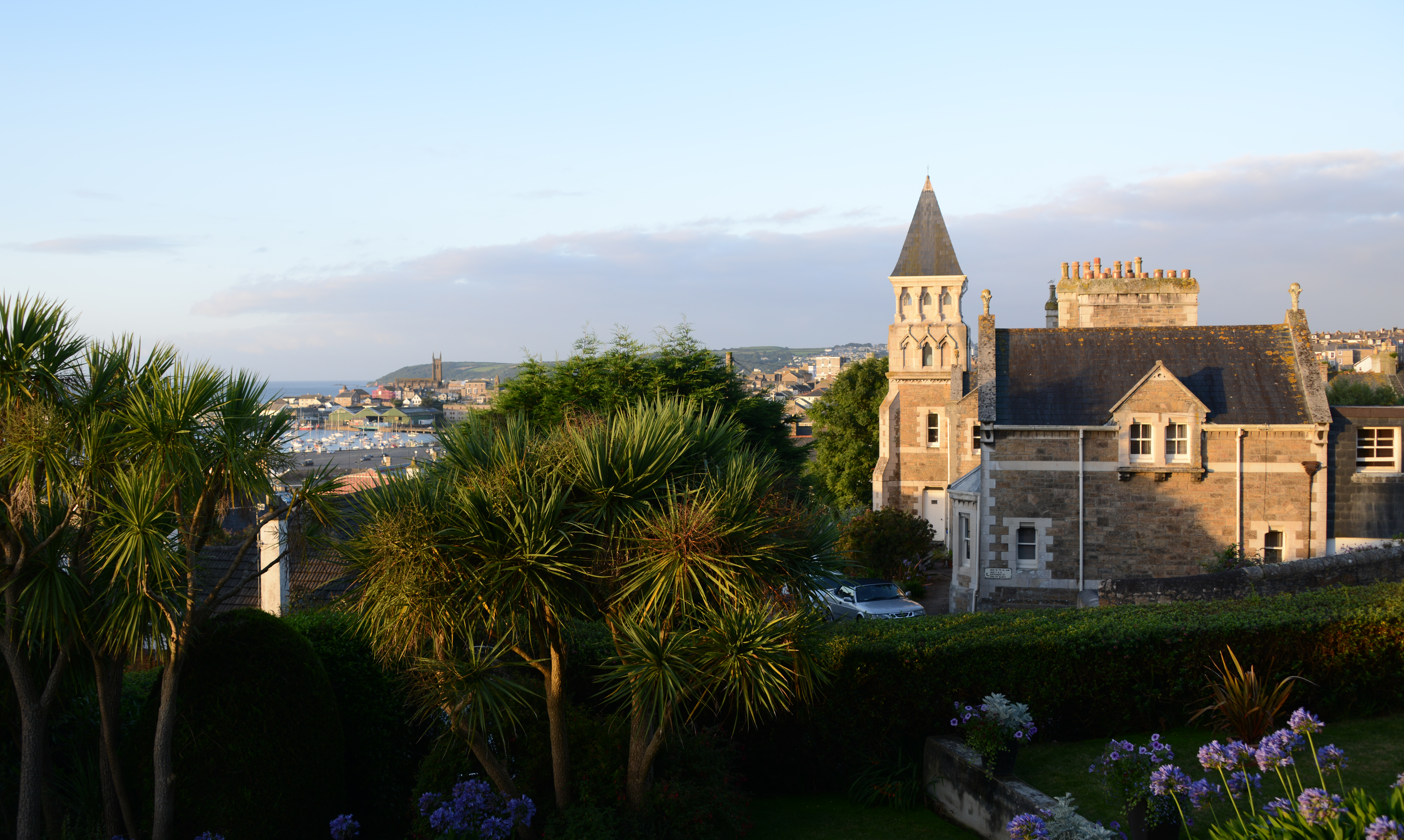 Penzance, Cornwall